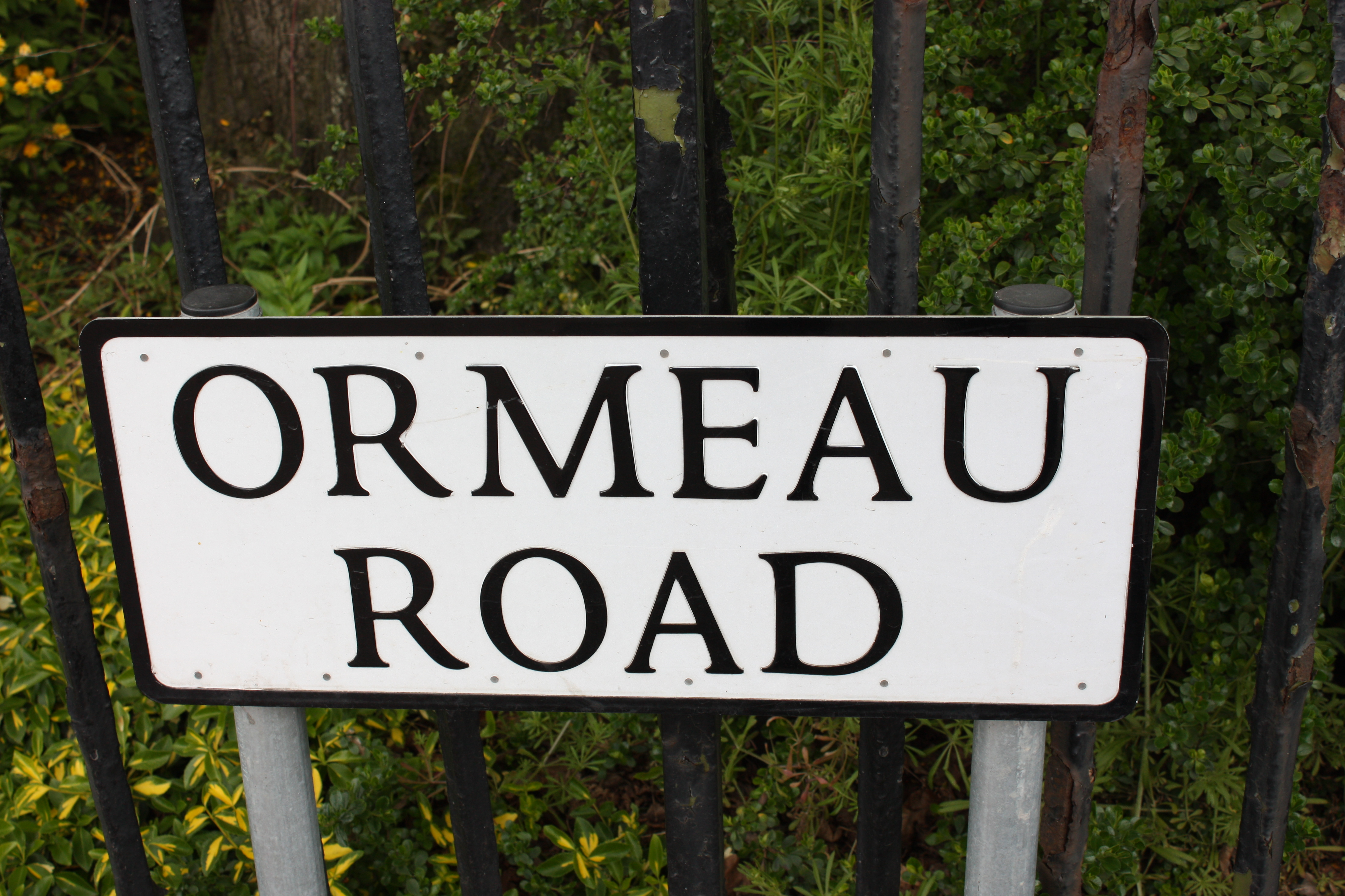 Ormeau Road sign, Ormeau Road, Belfast, Northern Ireland, May 2010